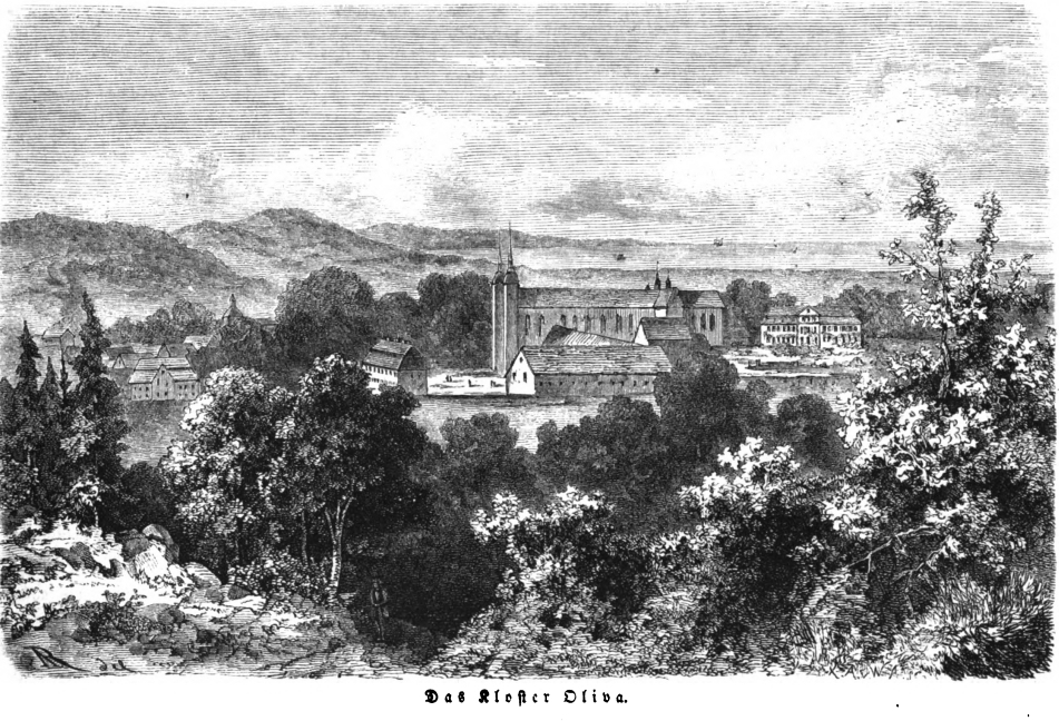 no caption